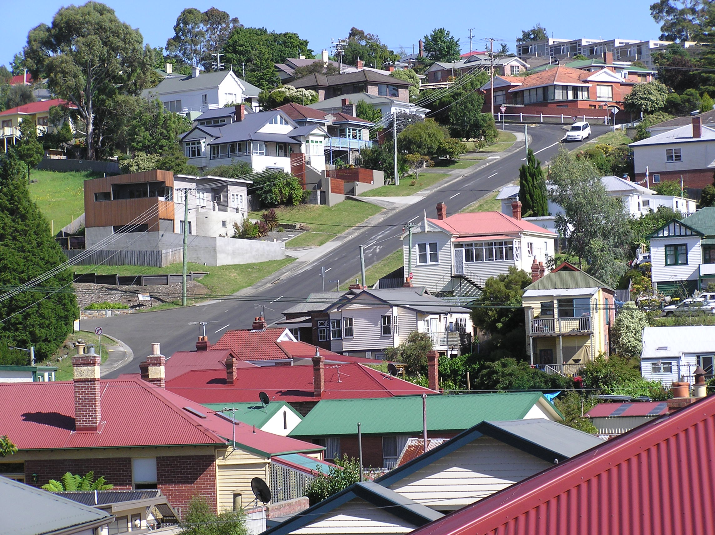 Mellifont Street West Hobart Tasmania, a very steep street that driving testers like to verify that candidates can start a car on a hill. View from Friends Park.